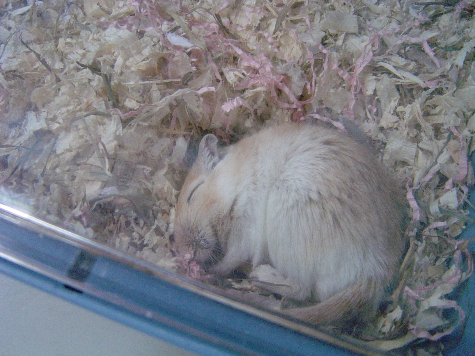 My Gerbil Ordos, while he is sleeping